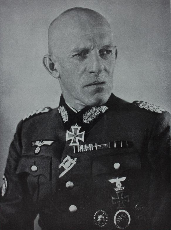 Portrait of the German General Ludwig Kübler (1889-1947)